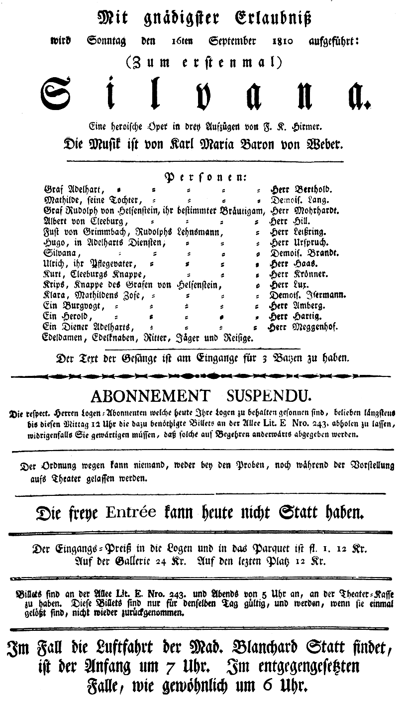 Carl Maria von Weber - Silvana - play bill of the first performance 1810